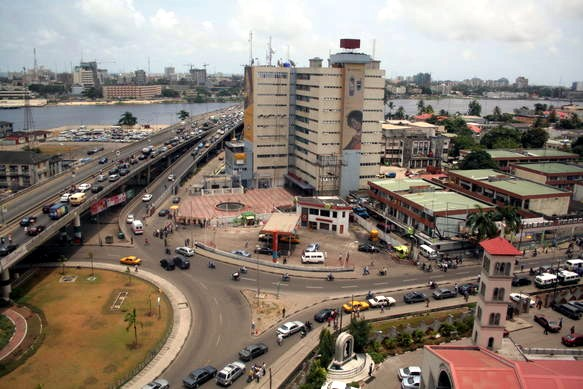 The "Golden Plaza" in Ikoyi, Lagos. On the left the Falomo Bridge to Victoria Island